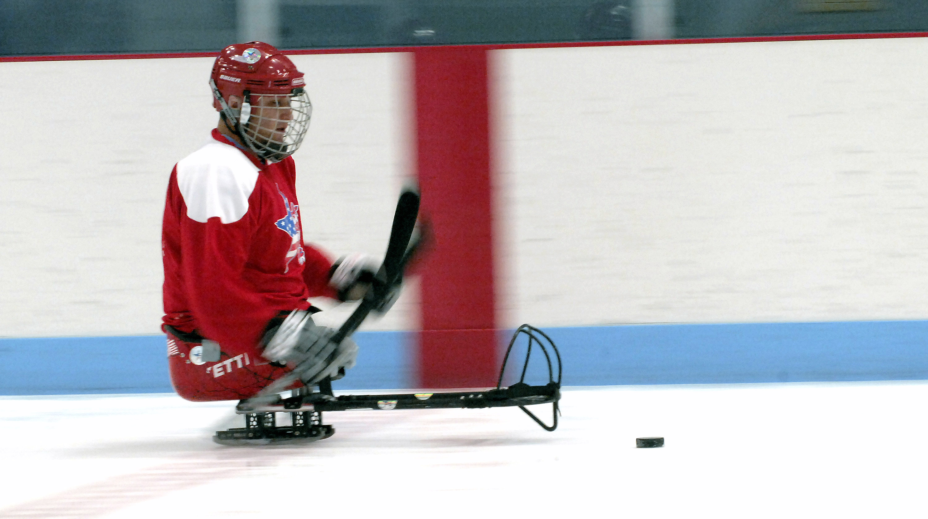 Disabled Army veteran, Shane Parsons handles a puck at a sled hockey game during the 22nd National Disabled Veterans Winter Sports Clinic held at the Snowmass Village, Colo., April 2. The annual disabled learn-to-ski clinic helps motivate and rehabilitate disabled Department of Defense veterans. It is the largest of its kind in the world. The clinic instructs veterans on Alpine and Nordic skiing, rock climbing, snowmobiling, sled hockey, and more.